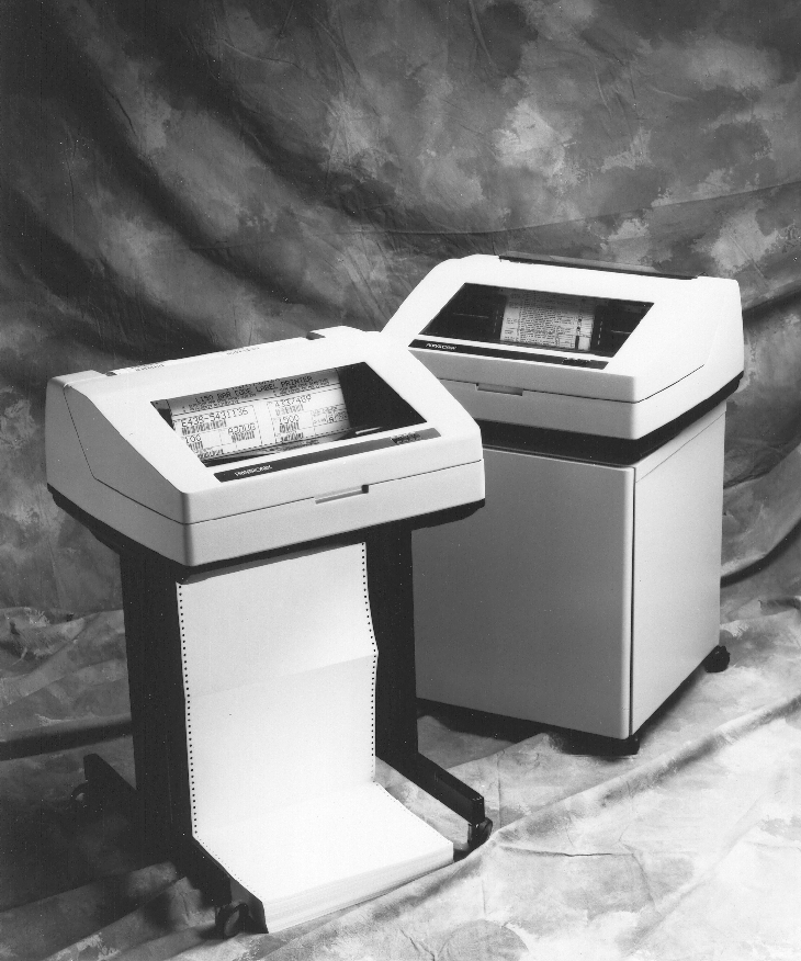 Printronix MVP Series Line Printers